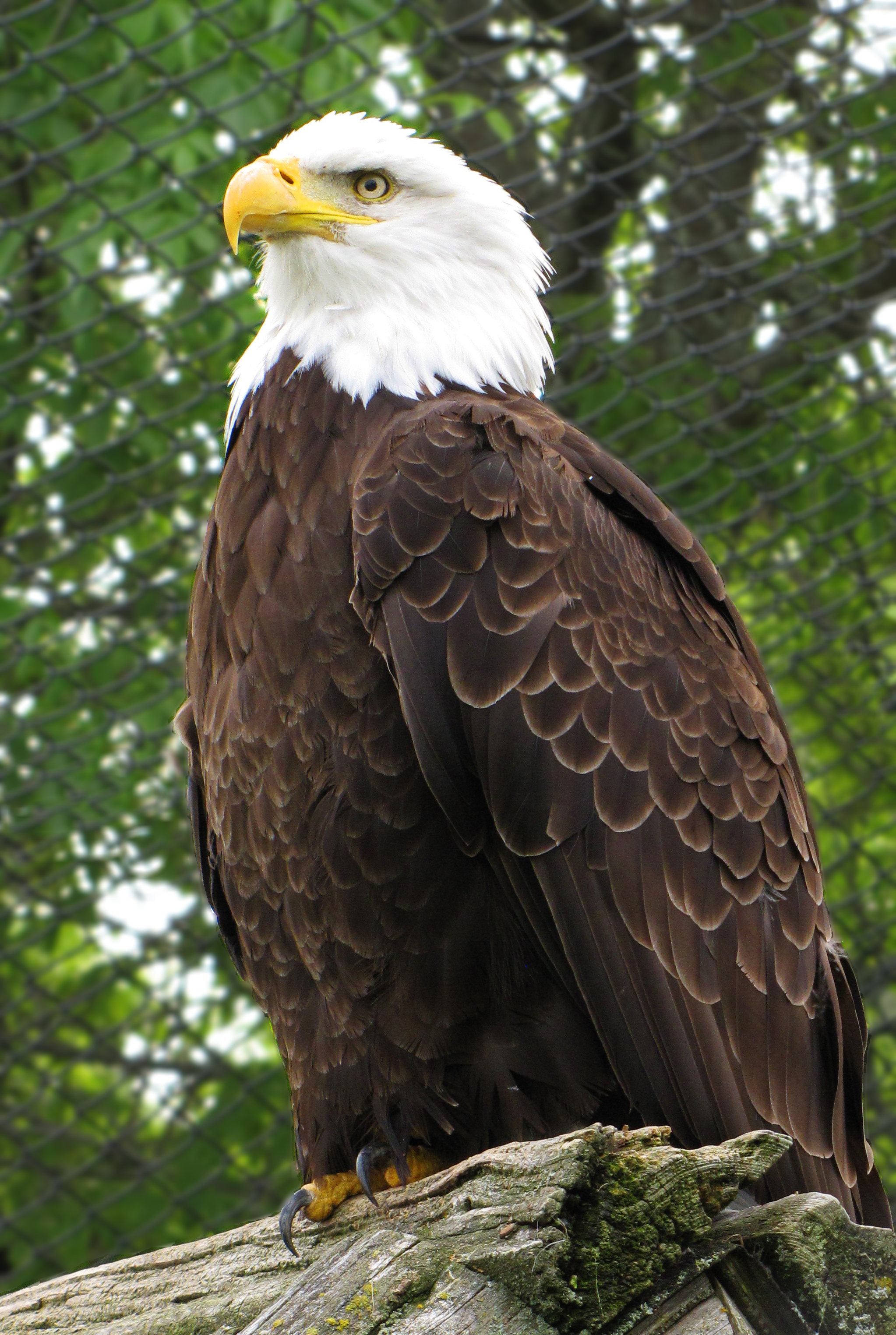 A Bald Eagle at the Magnetic Hill Zoo in Moncton, Canada